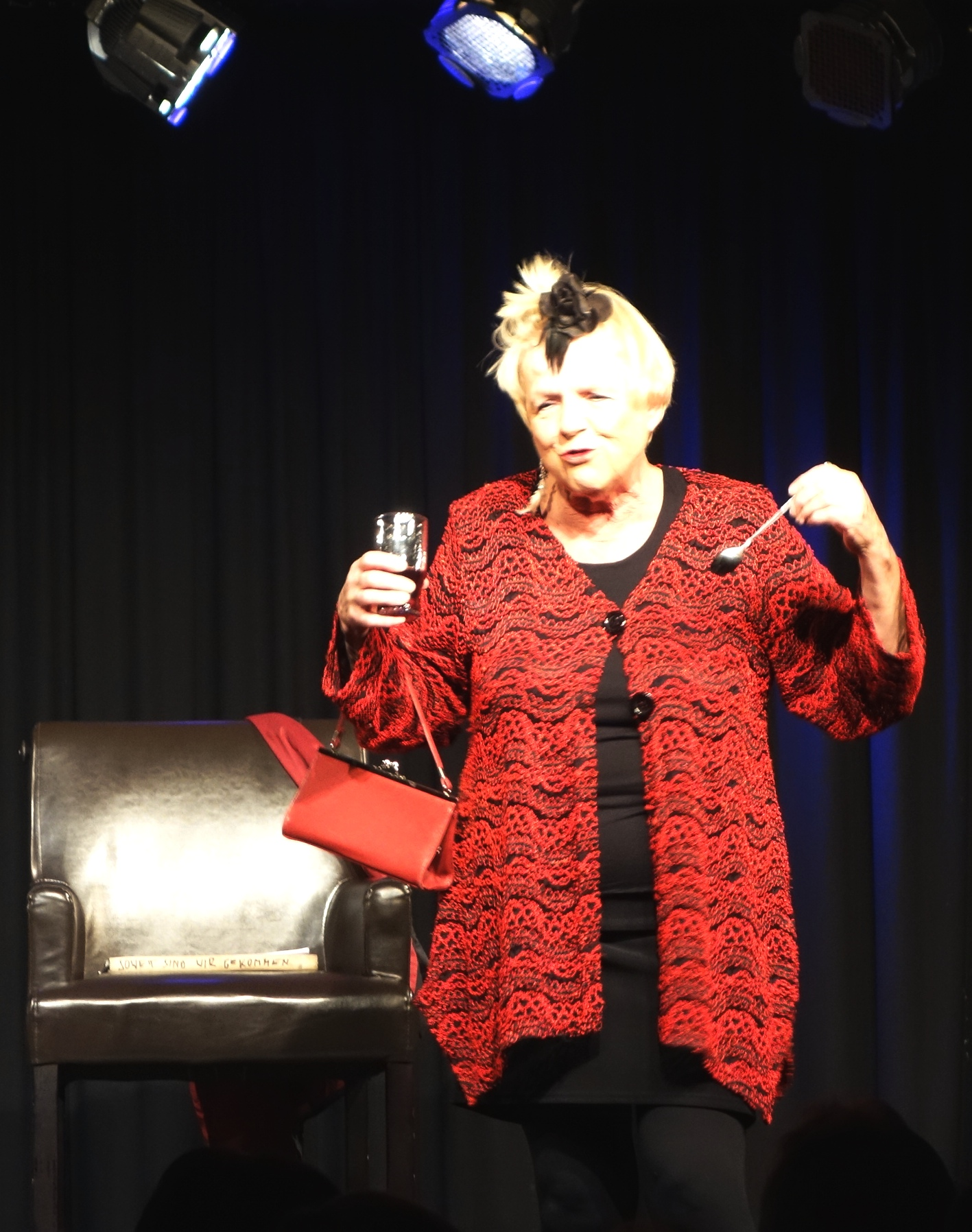 Gisela Oechelhaeuser on stage (Pirna, 2015)